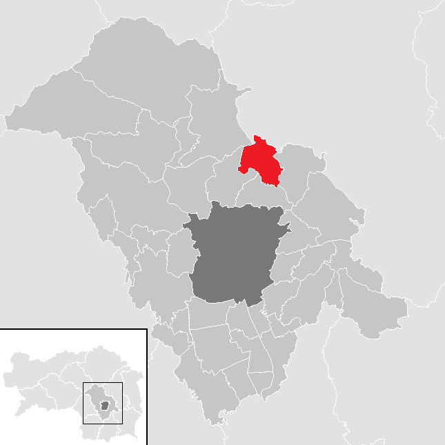 District Graz-Umgebung, Styria